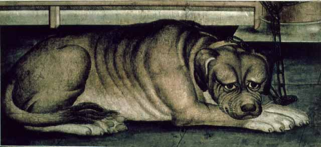 A Late Joseon painting. It shows some influences of the Western painting techniques introduced to Joseon Korea.